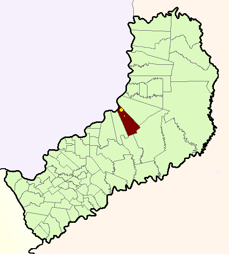 A map of Caraguatay's municipio in Misiones province, Argentina. The big point is Caraguatay town, the little one is Tarumá town.